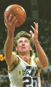 Professional basketball player Bobby Hansen in an offensive play against the Philadelphia Sixers during a November 30, 1987 home game at the Salt Arena.